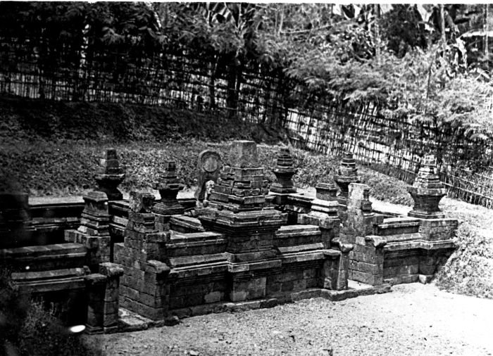 A candi at Wendit